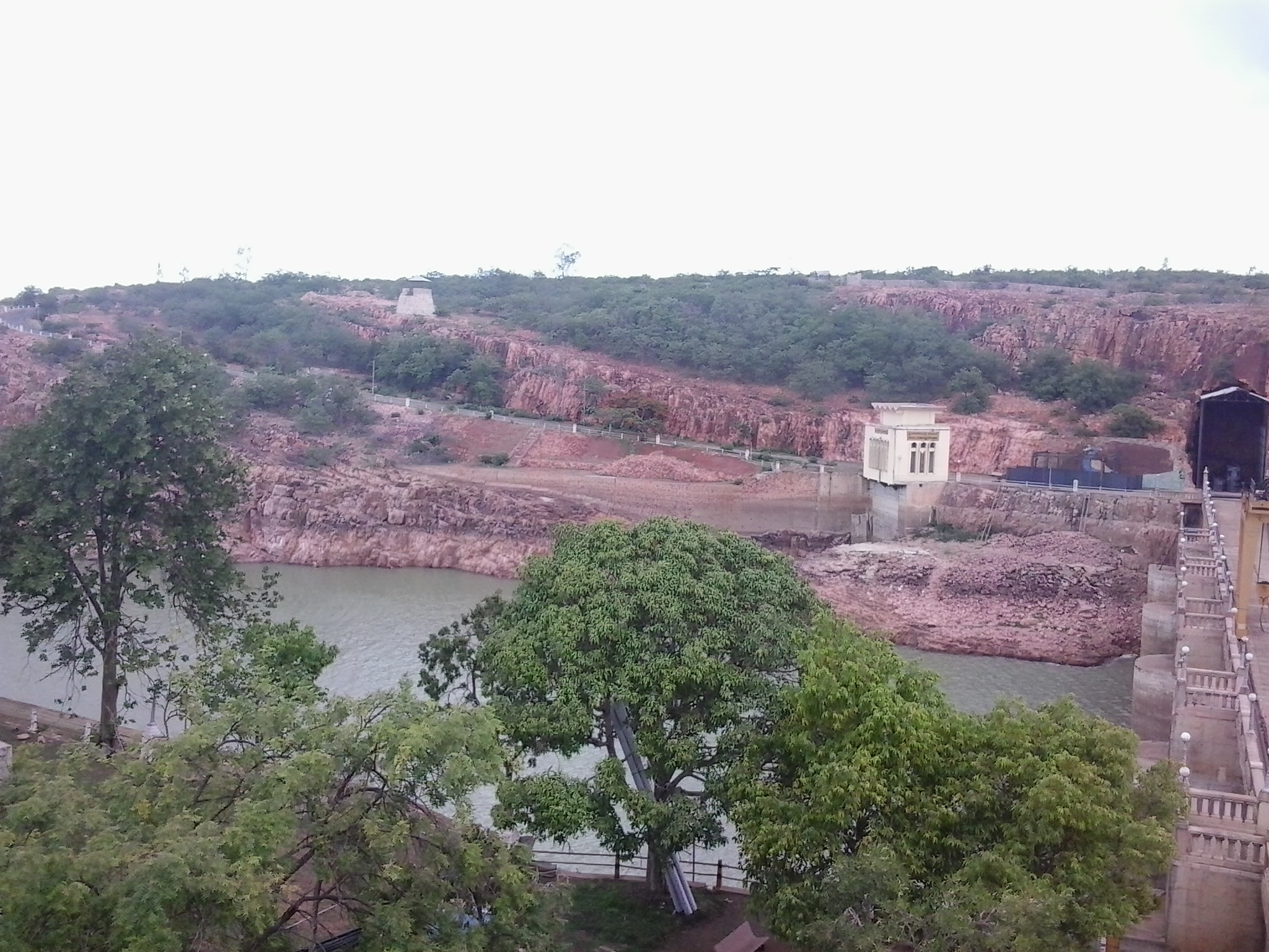 Navilu theertha dam is constructed across the river Malaprabha in Belagavi district of Karnataka, India